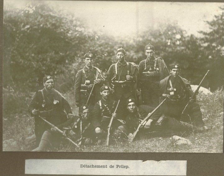 Imaro cheta of Petre Pashata, Prilep region